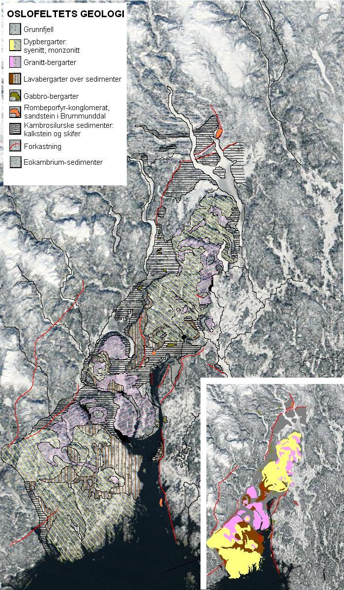 Geological map of the Oslo Graben, around Oslo Fjord, Norway.